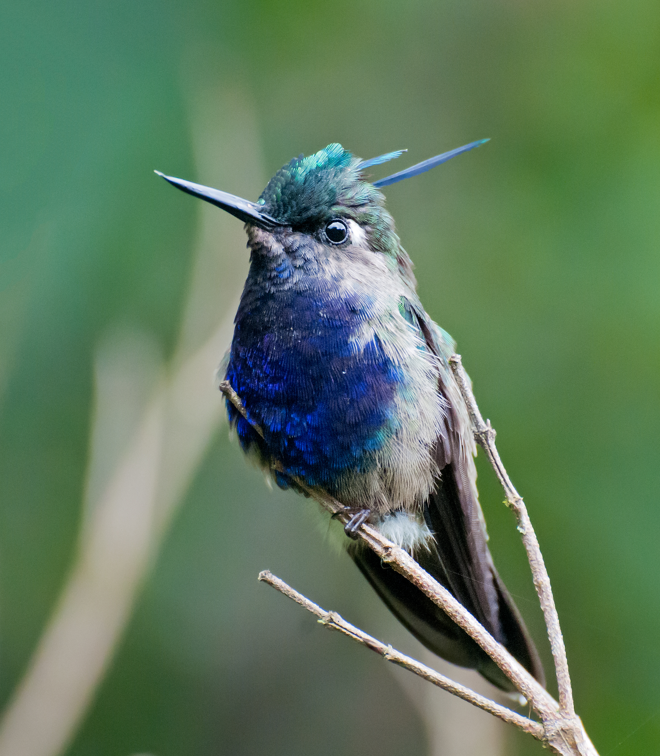 A Plovercrest in Campos do Jordão, Piraju, São Paulo, Brazil.